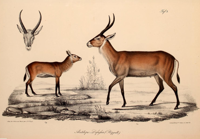 Engraving of defassa waterbuck.